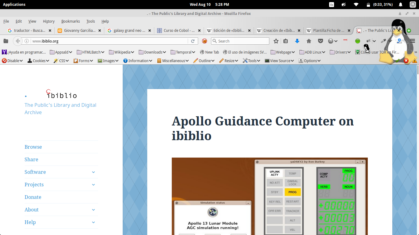 A screenshot of on Firefox 47 on Linux